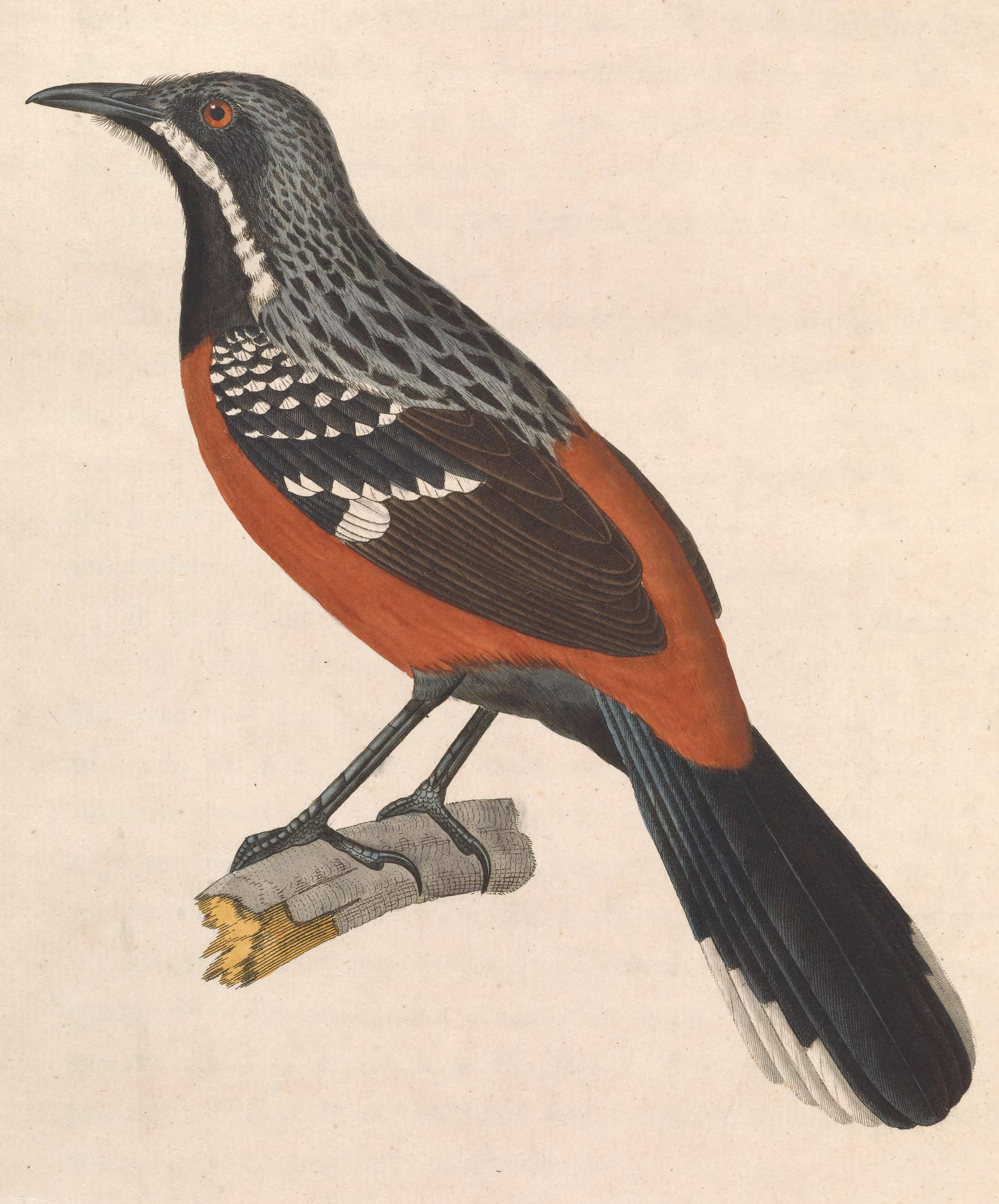 « Malurus frenatus » = Chaetops frenatus (Cape Rockjumper) - adult male